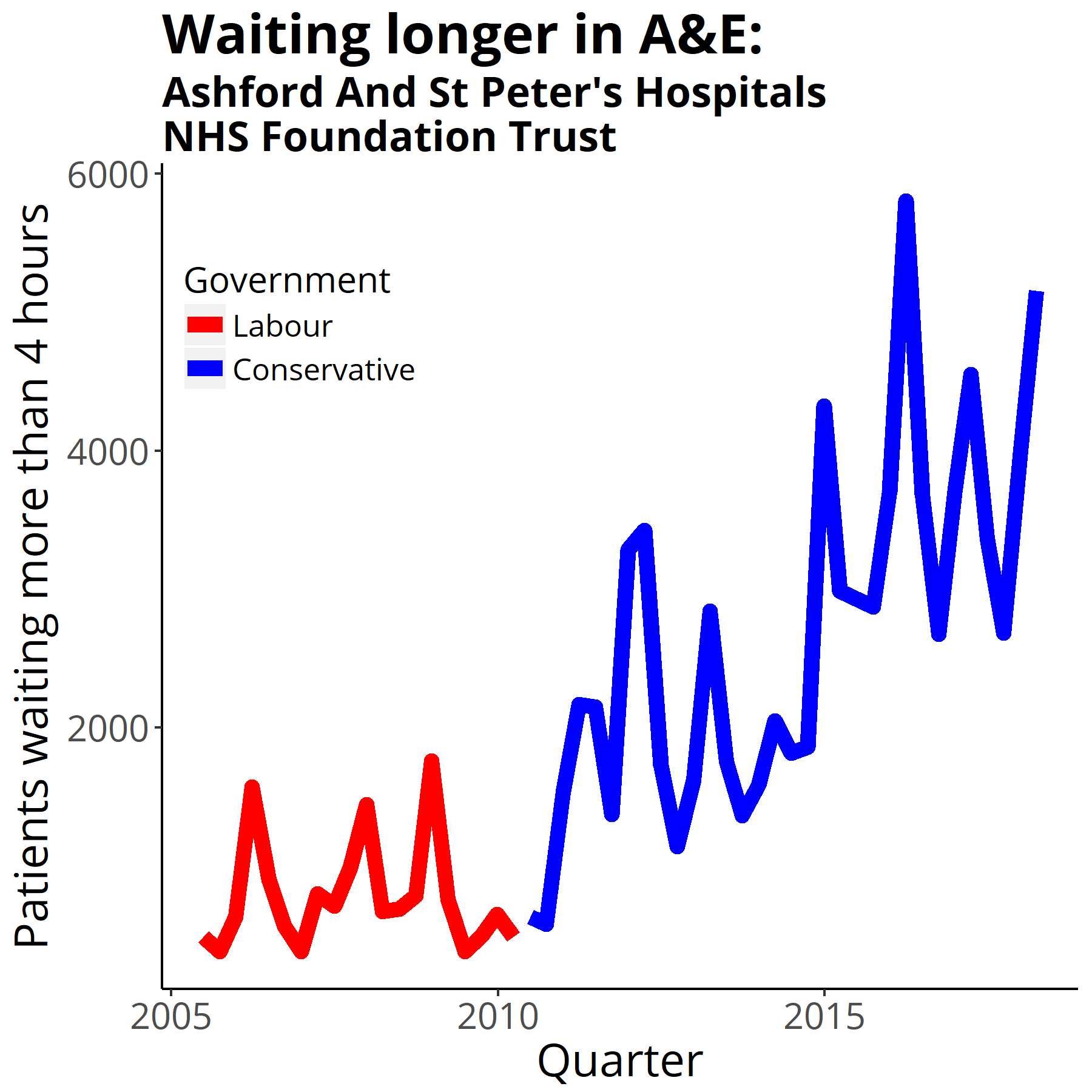 Four-hour target in the emergency department quarterly figures from NHS England Data from